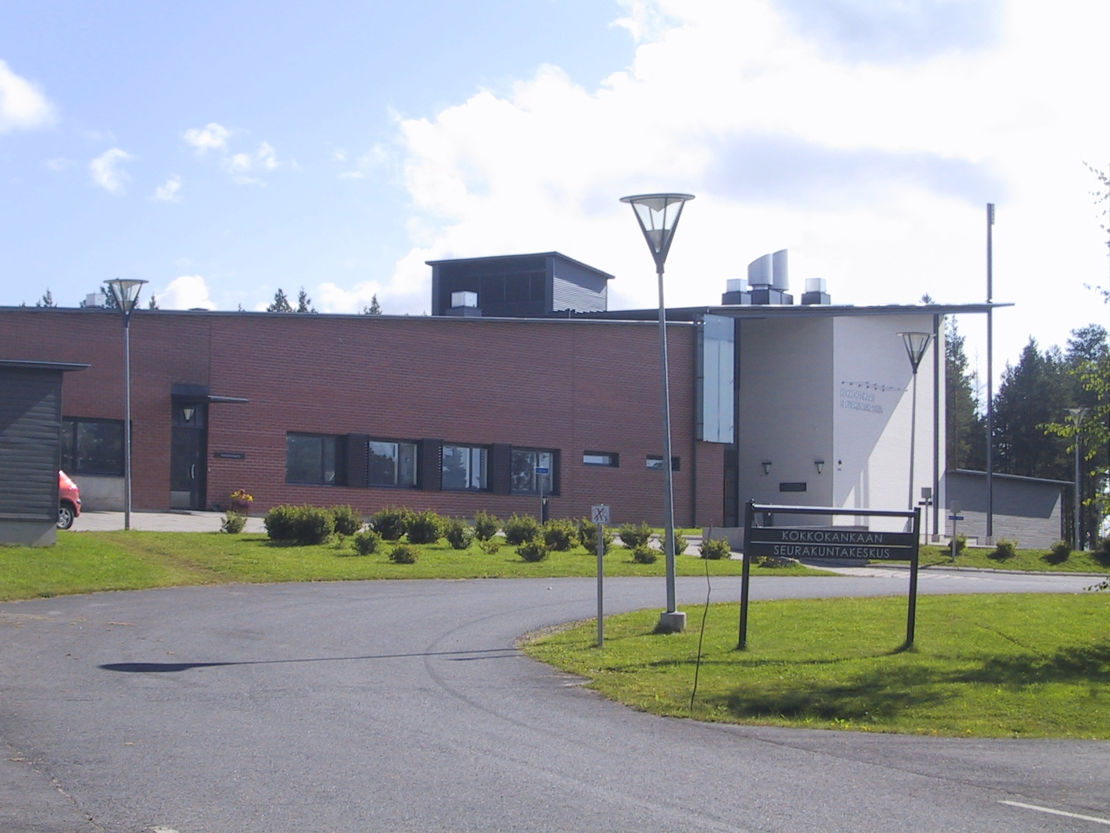 Parish centrum, in Kempele, Kokkokangas. Designed by architect office Pekka Lukkaroinen Oy and built in 2003.